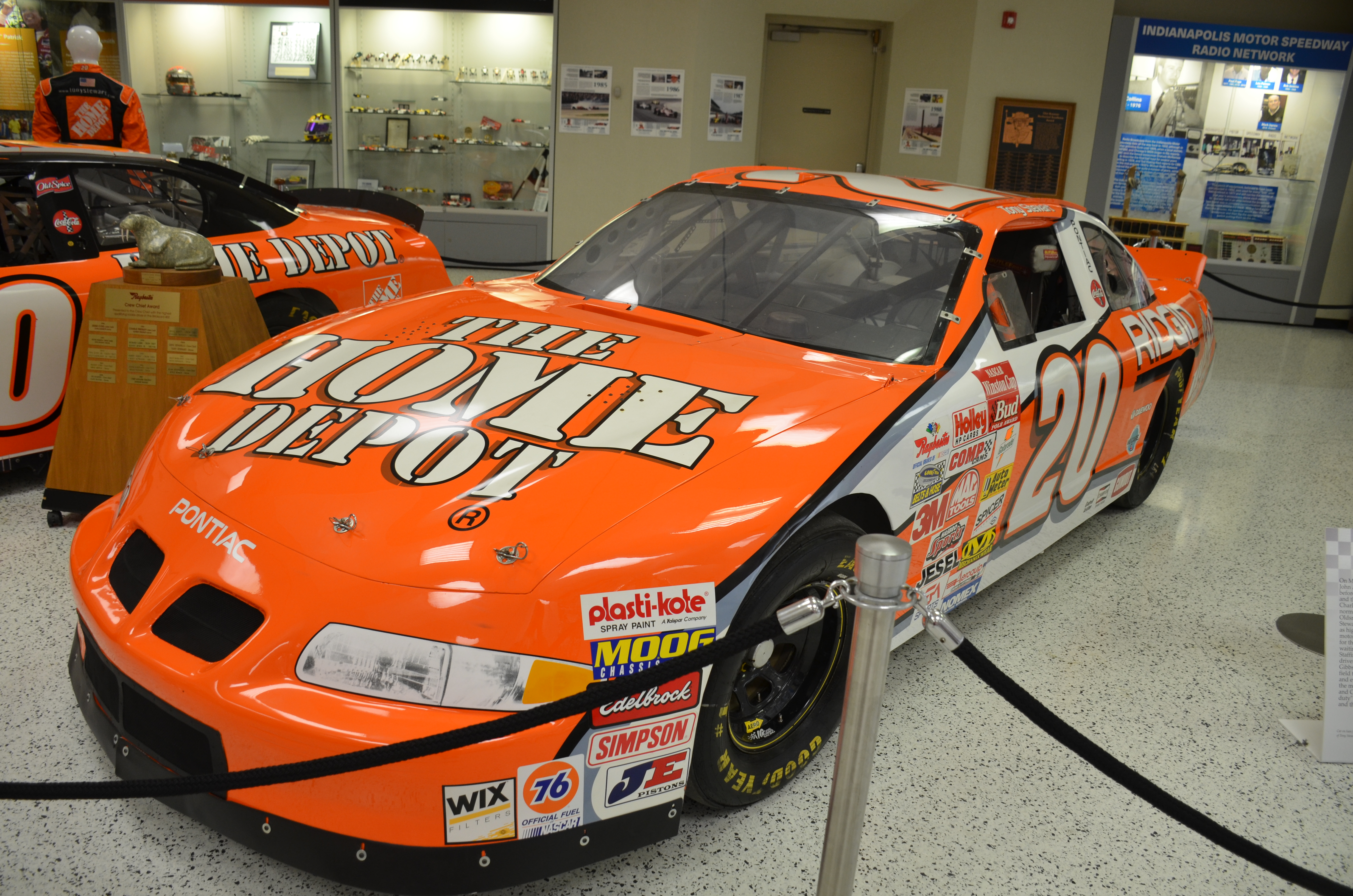 Tony Stewart's 1999 "Double Duty" car at the Indianapolis Motor Speedway Museum